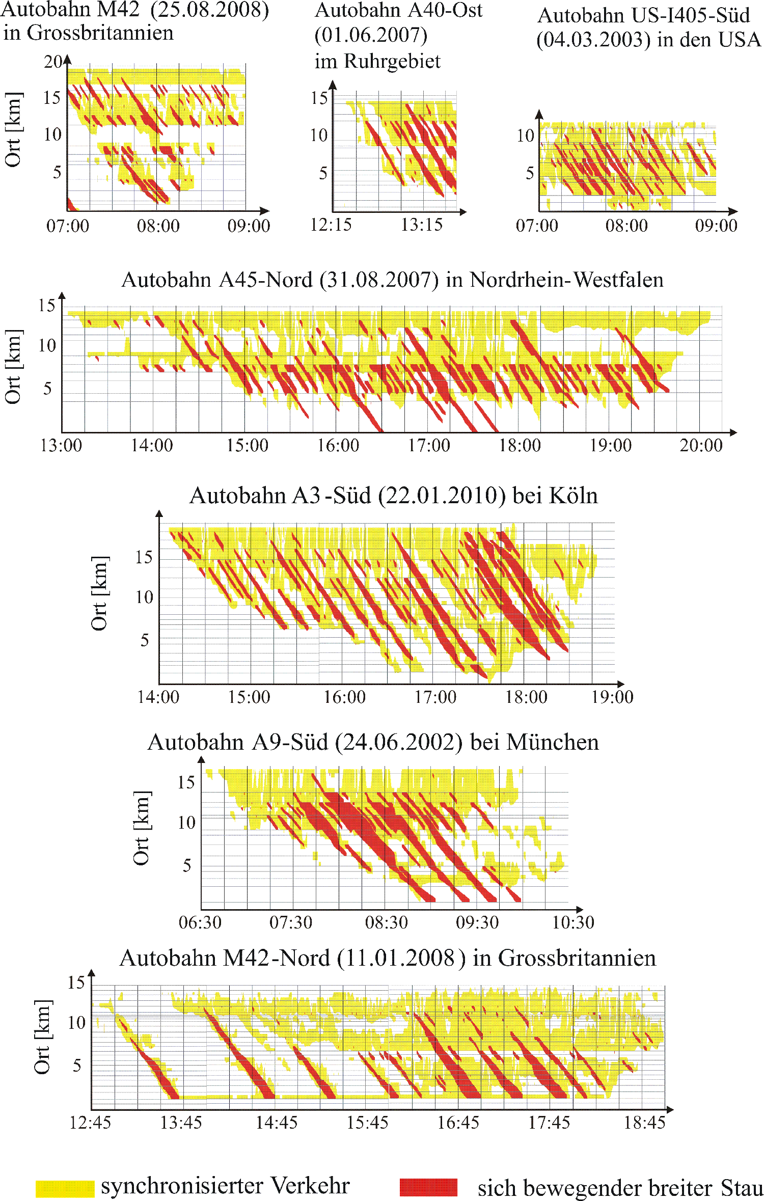 wide moving jam) (rot). 2. Synchronisierter Verkehr (gelb). 3. Freier Verkehr (weiß).